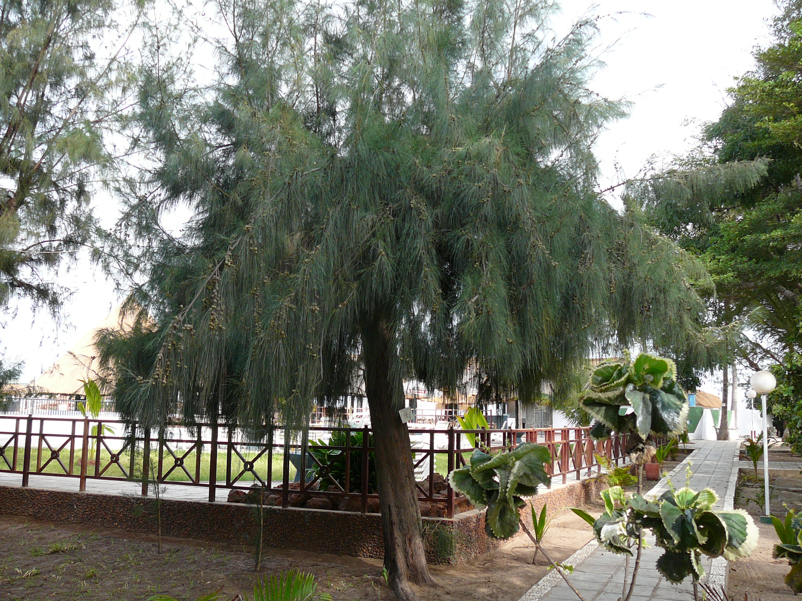 Casuarina equisetifolia